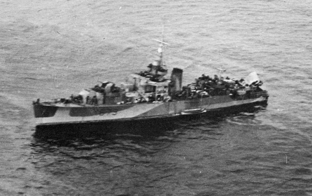 Aerial photograph of Canadian frigate HMCS Magog after being torpedoed by U-1223.